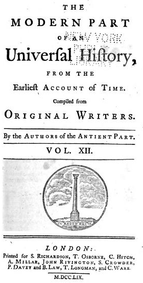 Title page: An universal history: from the earliest accounts to the present time, Volume 12. London: Printed for C. Bathurst, 1759